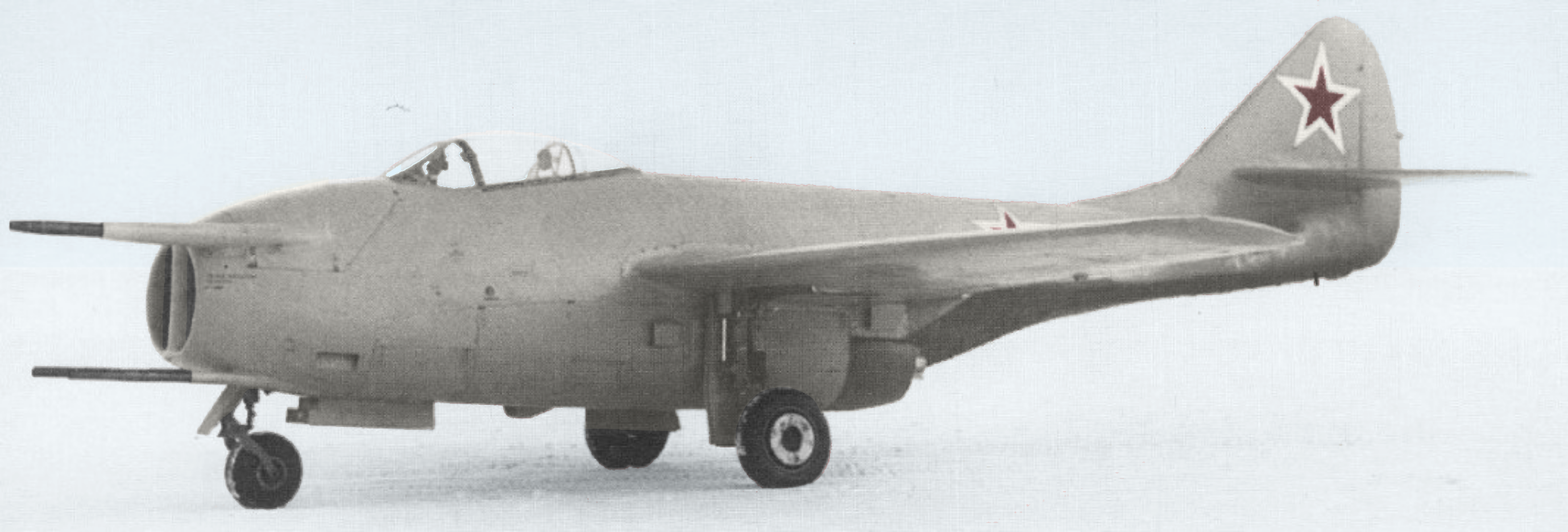 MiG-9 Jet Fighter